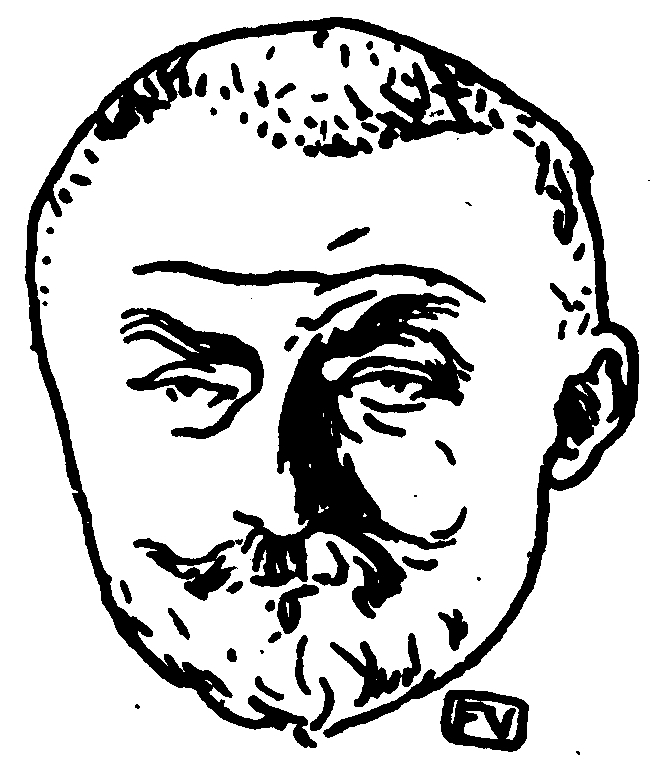 Portrait of French writer Joris-Karl Huysmans (1848-1907) from Le Livre des masques (vol. II, 1898) by Remy de Gourmont (1858-1916)